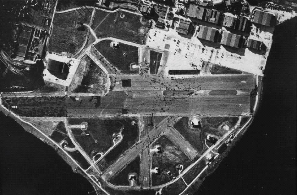 Template:Aerial view of the U.S. Naval Air Station Seattle, Washington (USA), in the 1940s.